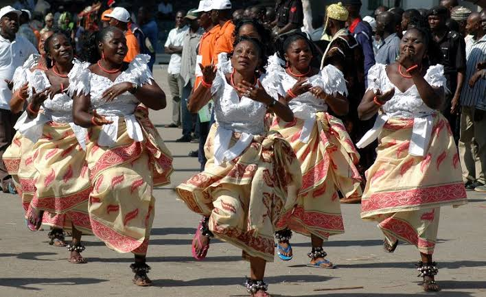 The Igbos are popularly know for business and stewardship This photo has been taken in the country: Nigeria